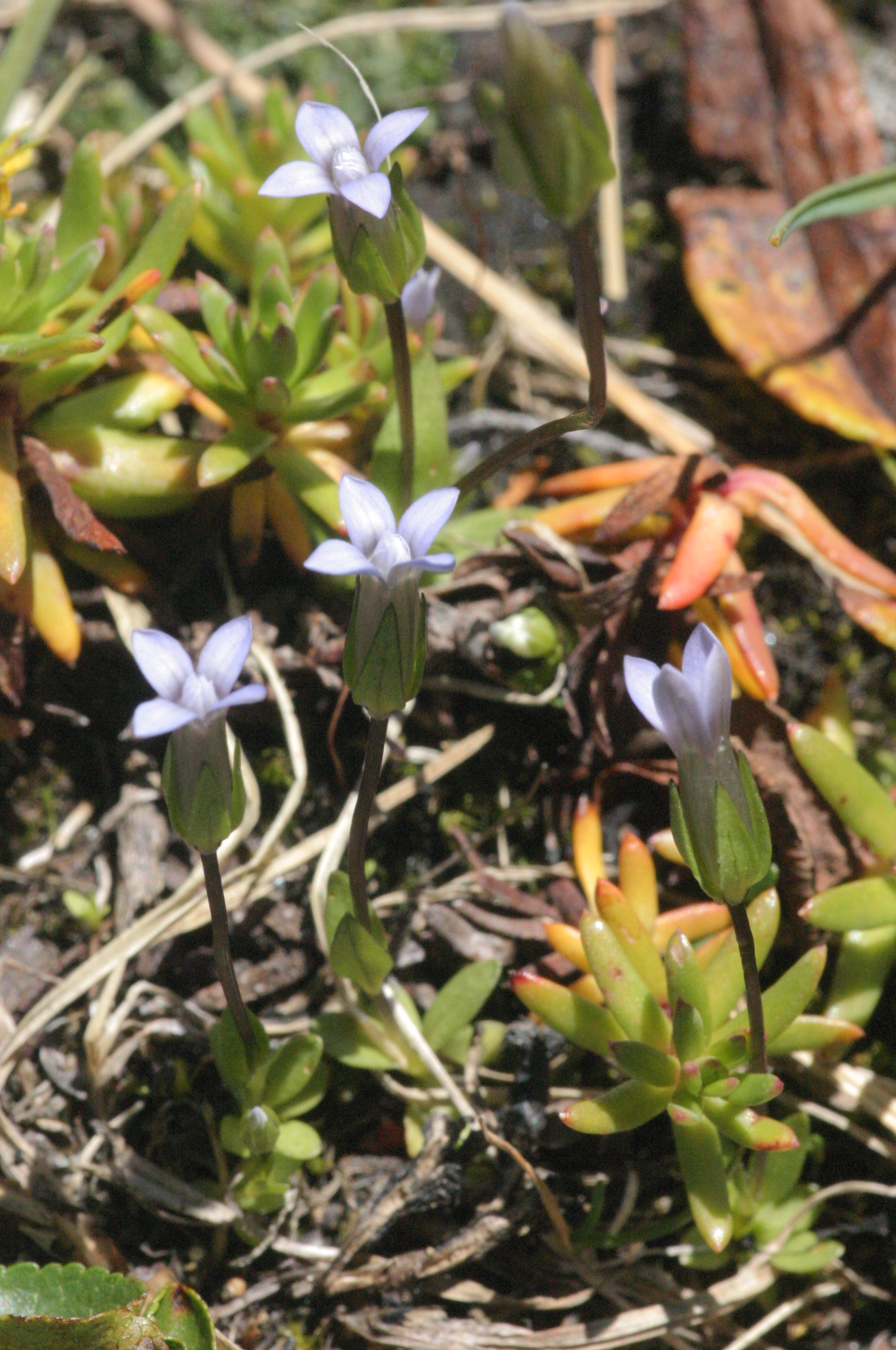 Comastoma tenellum (Syn. Gentianella tenella)